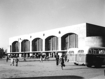 New Xiaguan Railway Station 中文（中国大陆）: 改造后的下关火车站